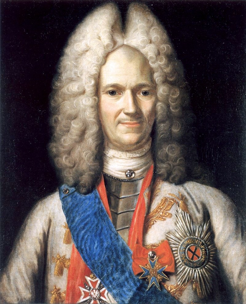 Portrait of Aleksander Danilovich Menshikov